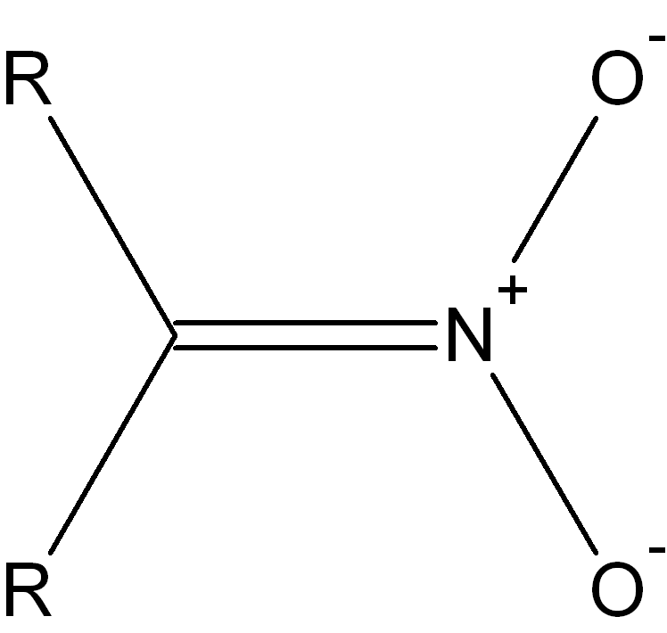 Nitronate ion